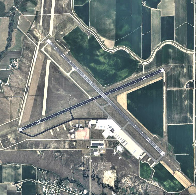 USGS digital orthophoto of Western Nebraska Regional Airport in Nebraska